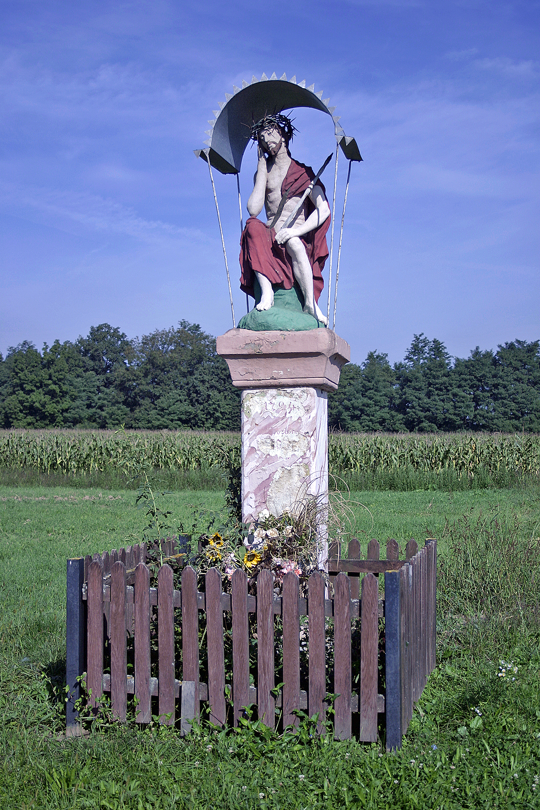 Znamenje, pil s Kristusom, Bratonci. Shrine, pil with Christ, Bratonci. Der Bildstock Pil mit Christus, Bratonci.